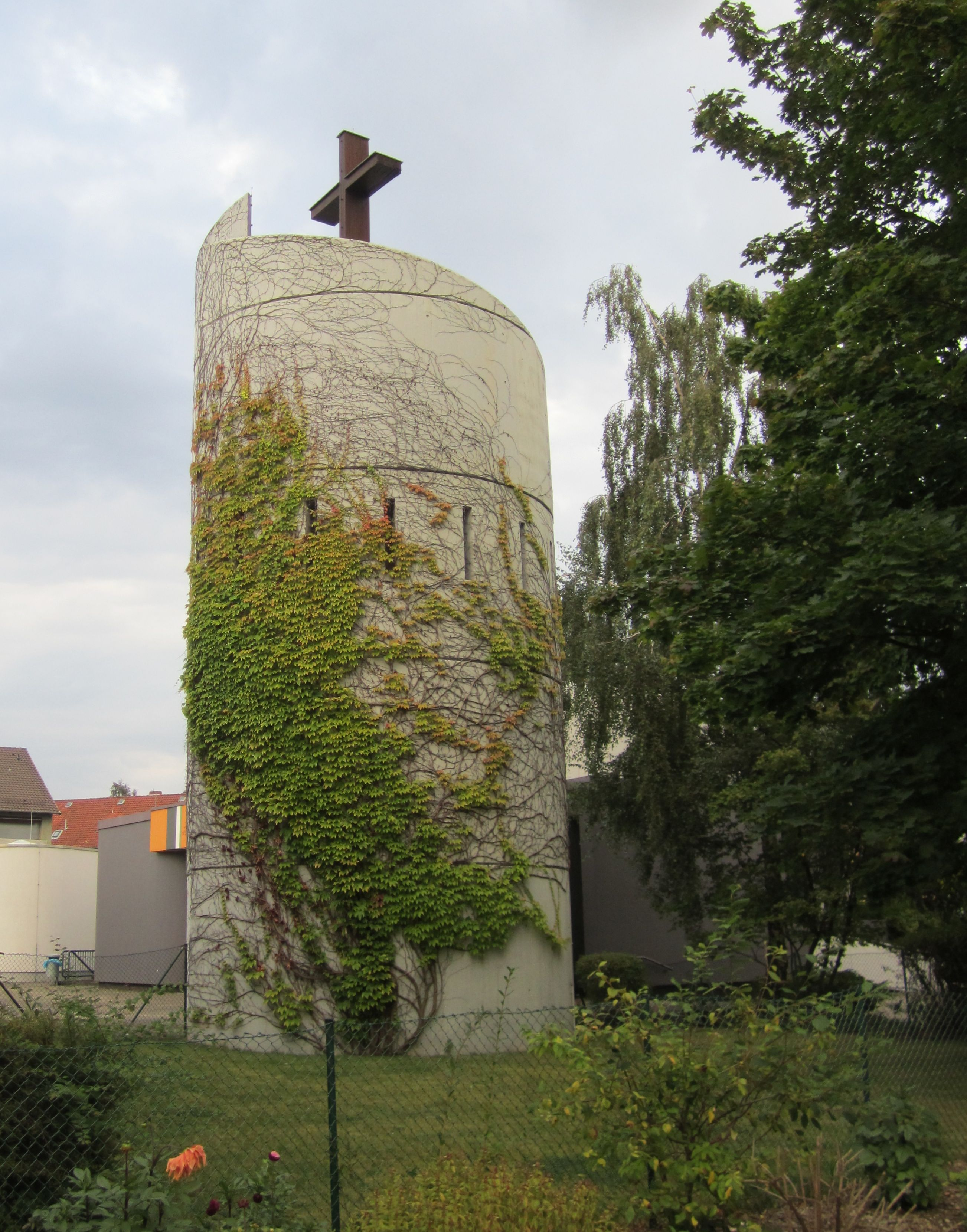 Bell tower of Holy Spirit church in Hanover, Germany.